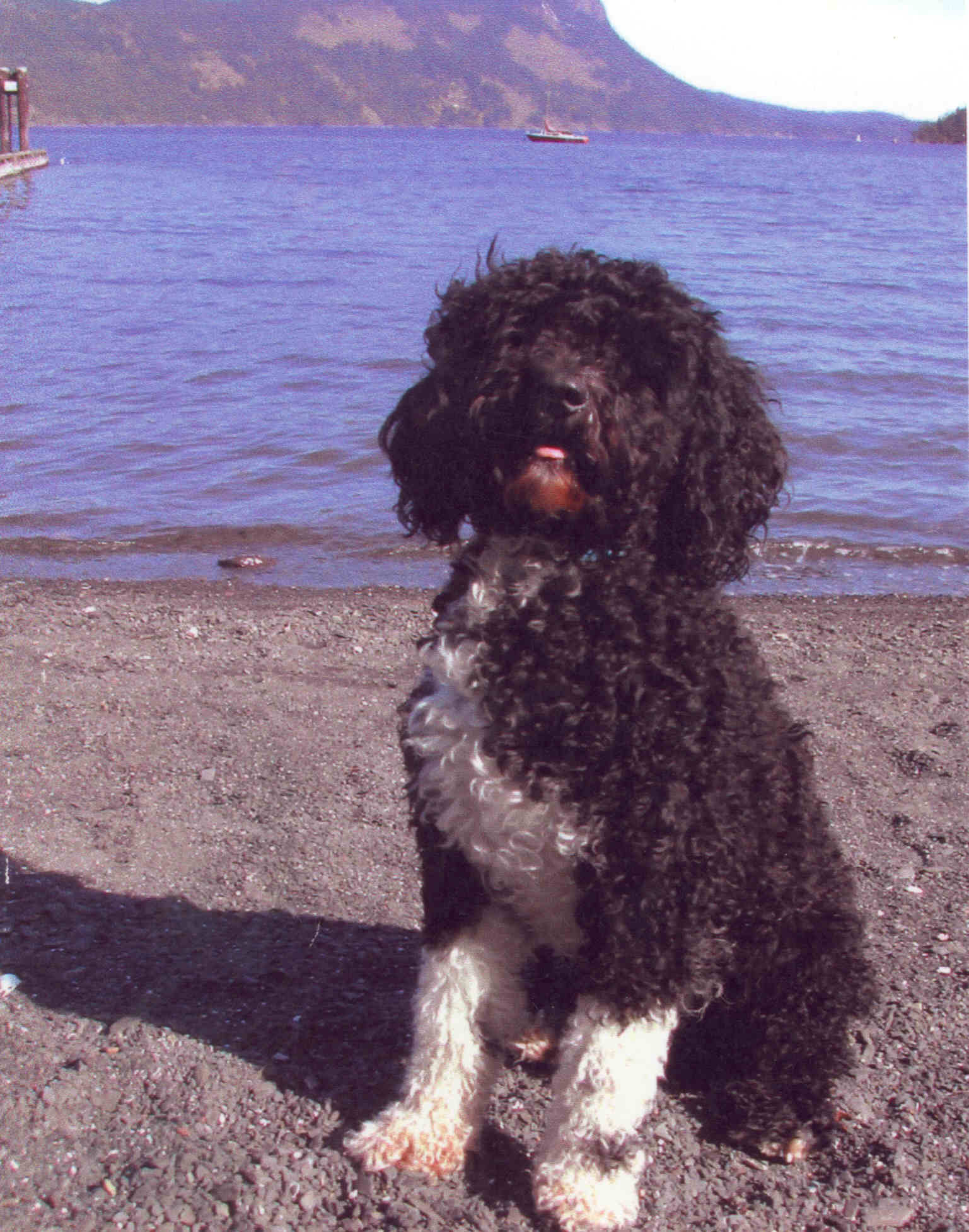 Often Colored Pattern Of Portuguese Water Dog; Curly Coat